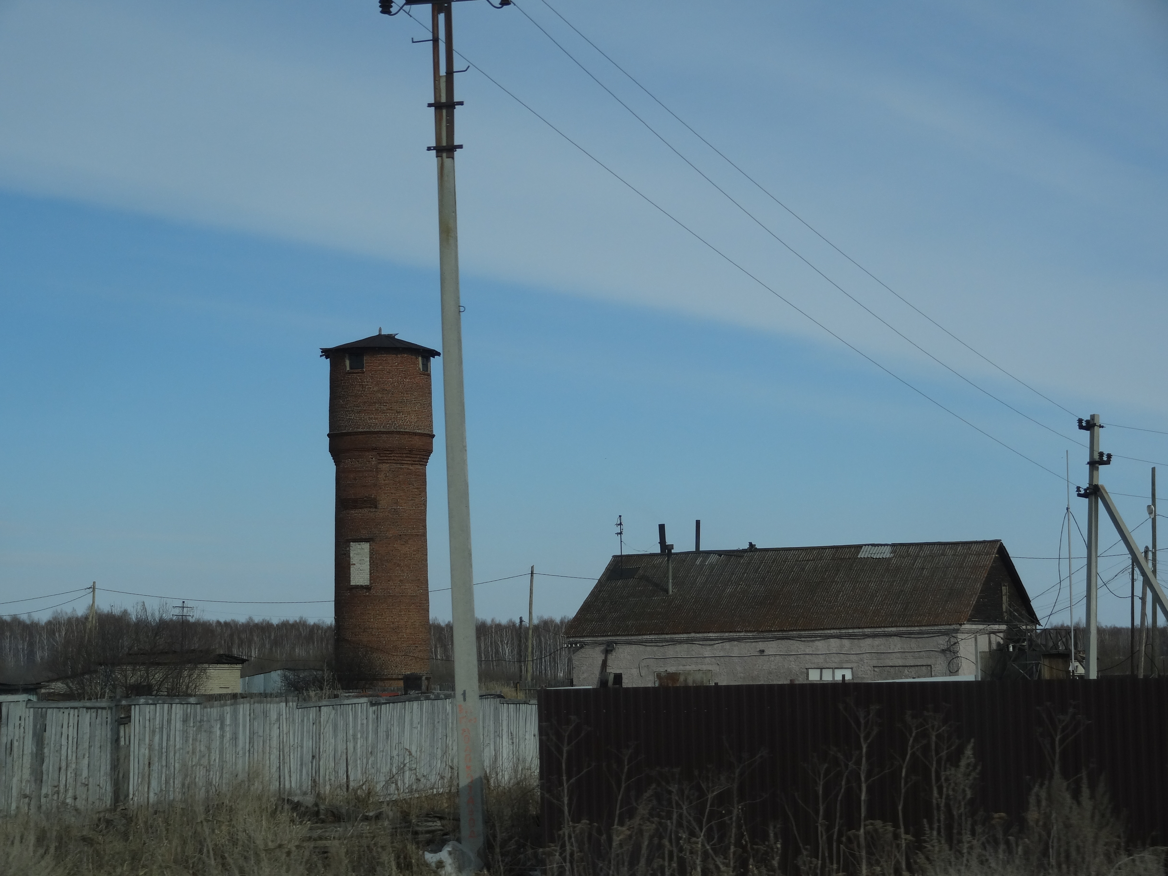 Stepnoi village, Sverdlovsk Oblast, Russia.